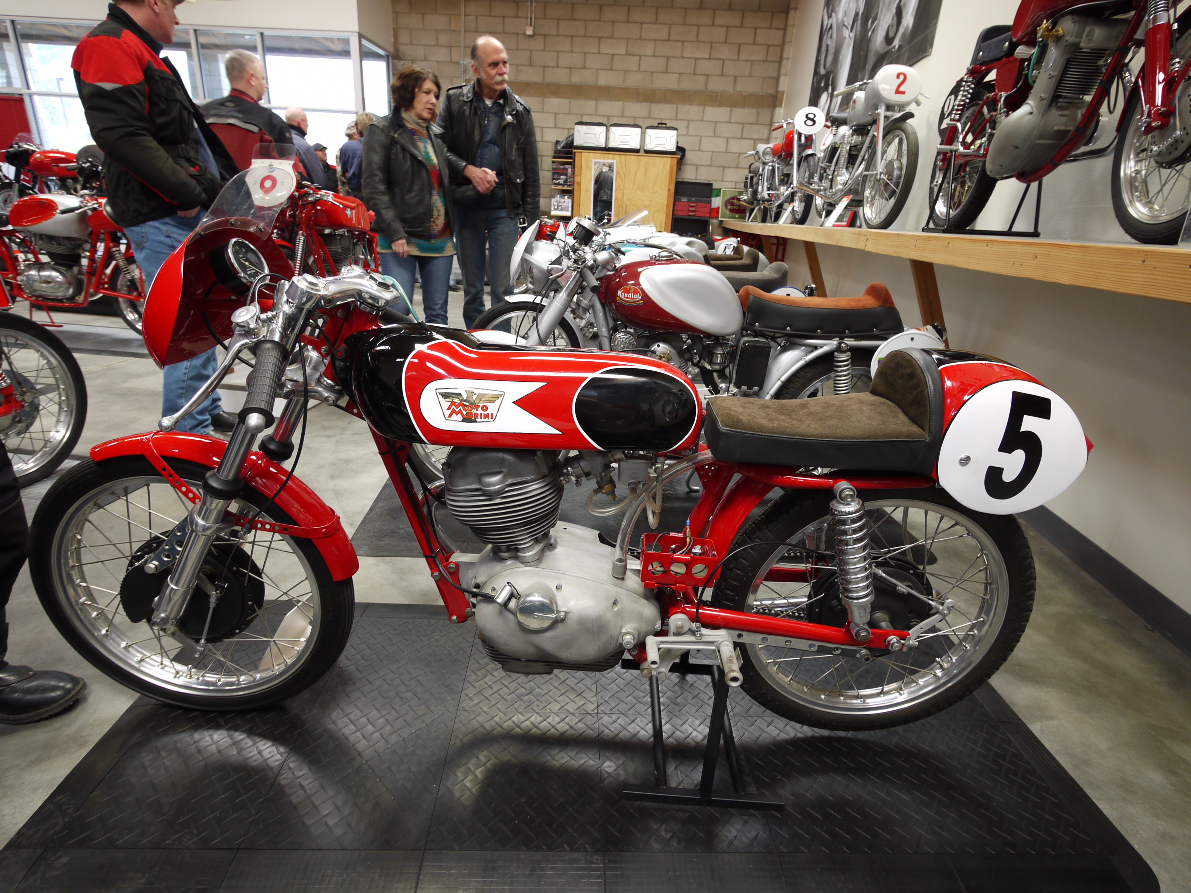 Moto Morini 175 Settebello, modified "Aste Corte", MSDS, 1961